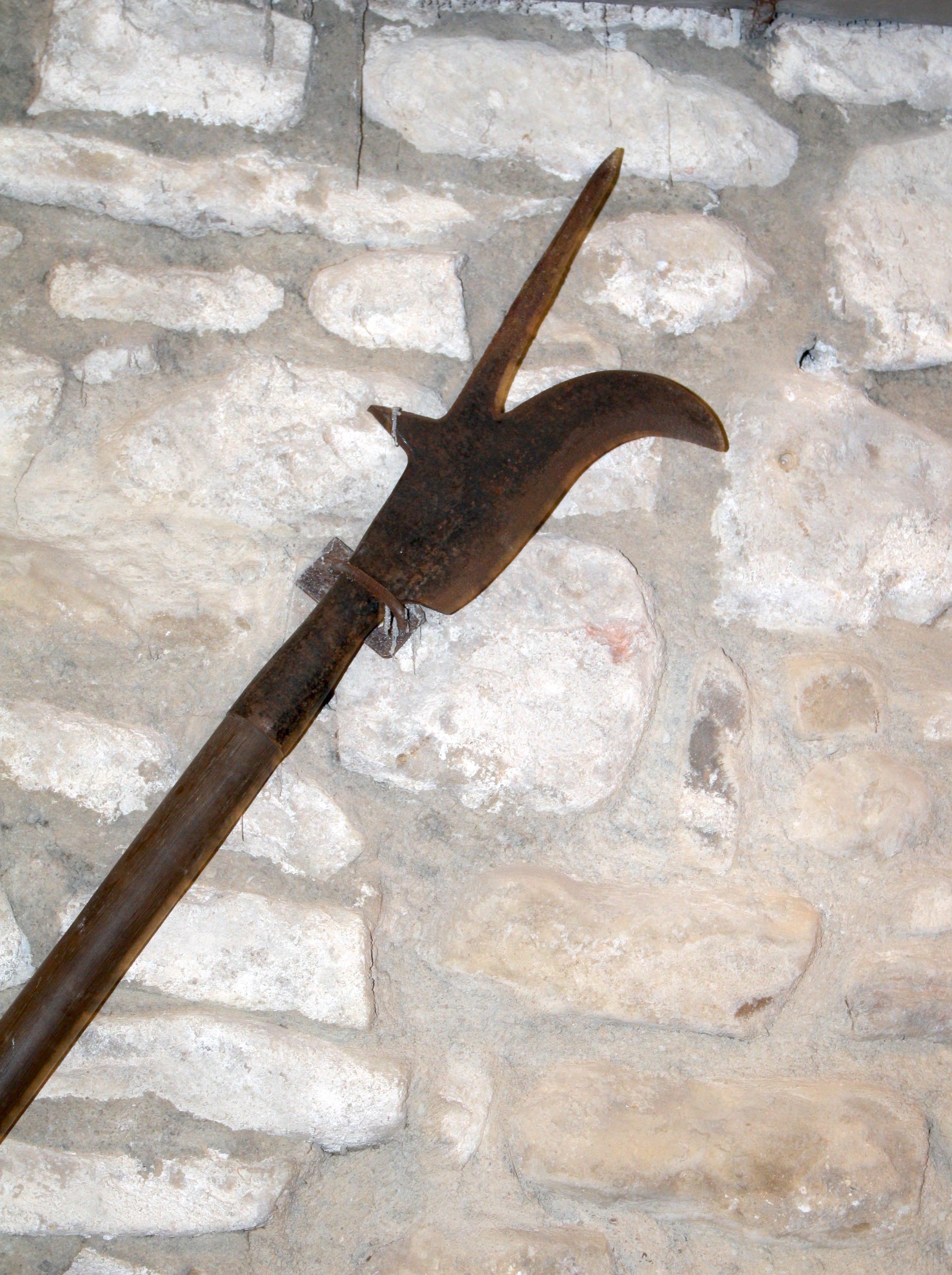 16th. century English bill from Arncliffe, North Yorkshire. Known locally as the Arncliffe Pike, it is said to have been carried by a soldier from the village at the Battle of Flodden in 1513.